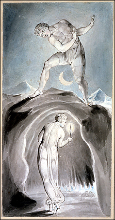 One of William Blake's watercolour illustrations for Robert Blair's poem The Grave.